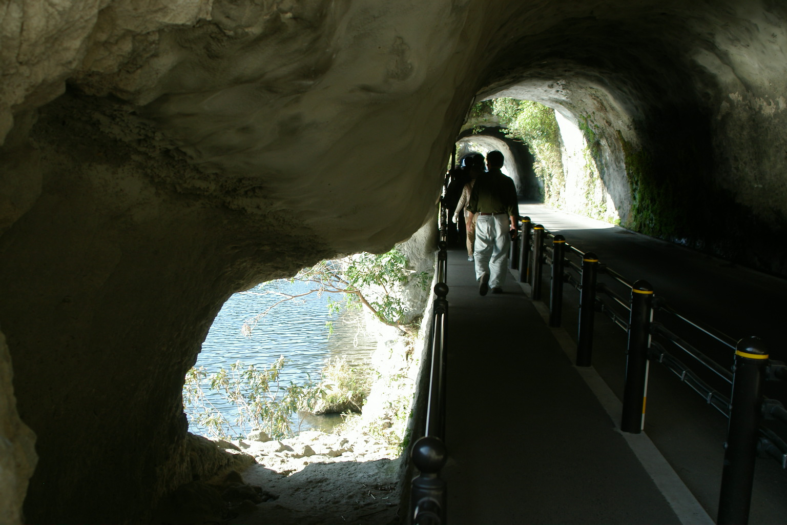 Ao no domon tunnel in Oita prefecture, Japan